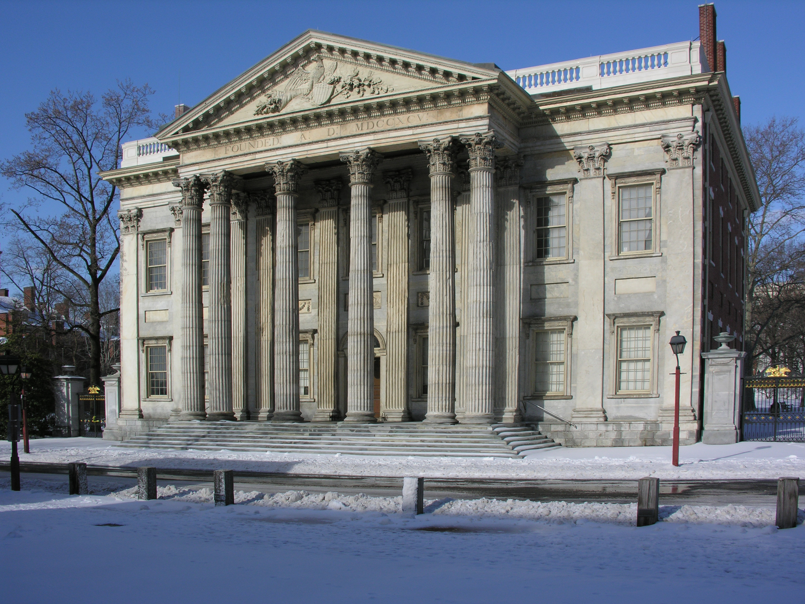 First Bank of the United States, Philadelphia, Pennsylvania, USA